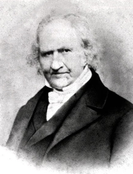 Carl Wigand Maximilian Jacobi (April 10, 1775 – May 18, 1858), daguerreotype, 5x7 cm